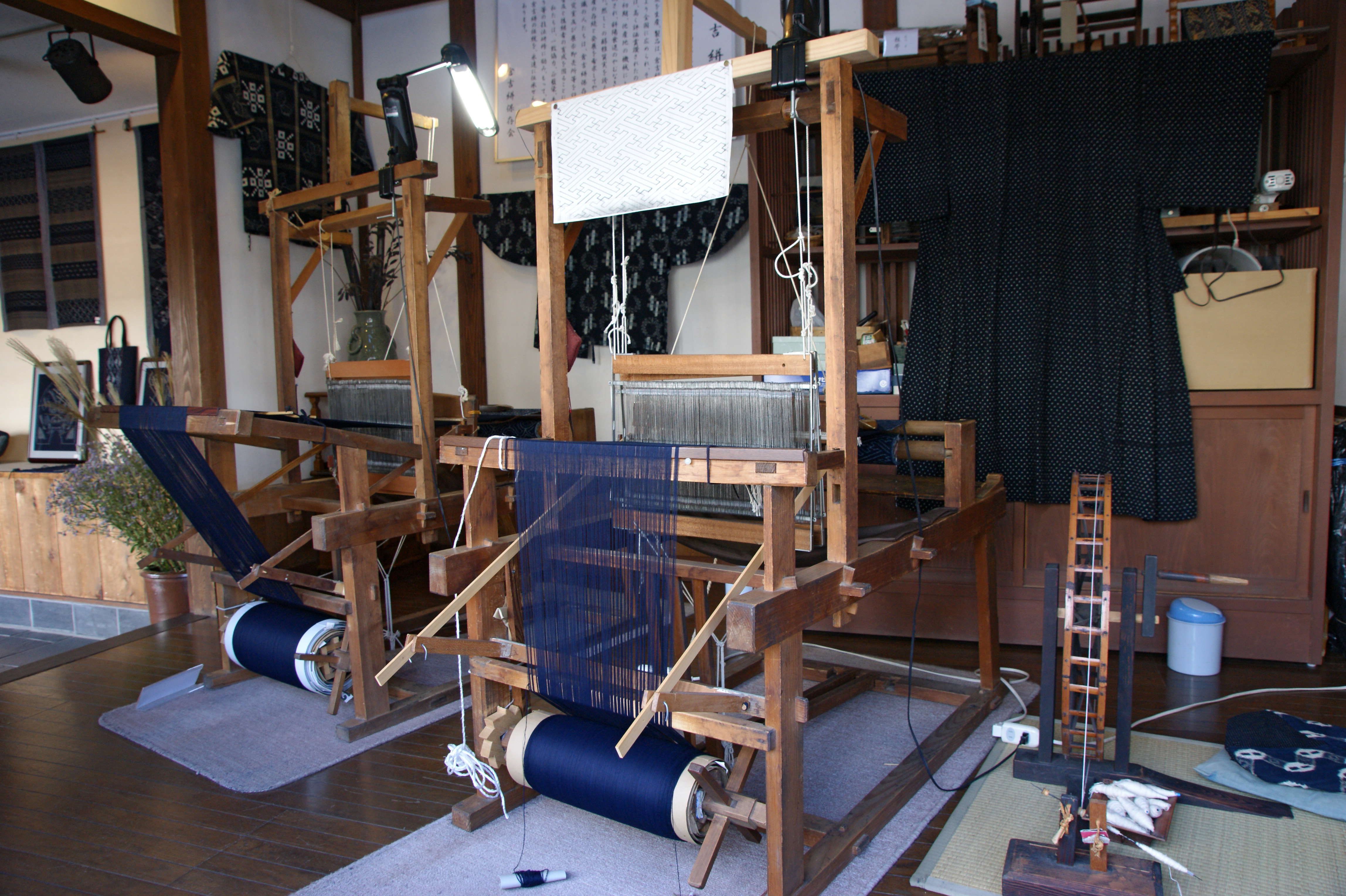 Kurayoshi-kasuri at Kurayoshi, Tottori prefecture, Japan